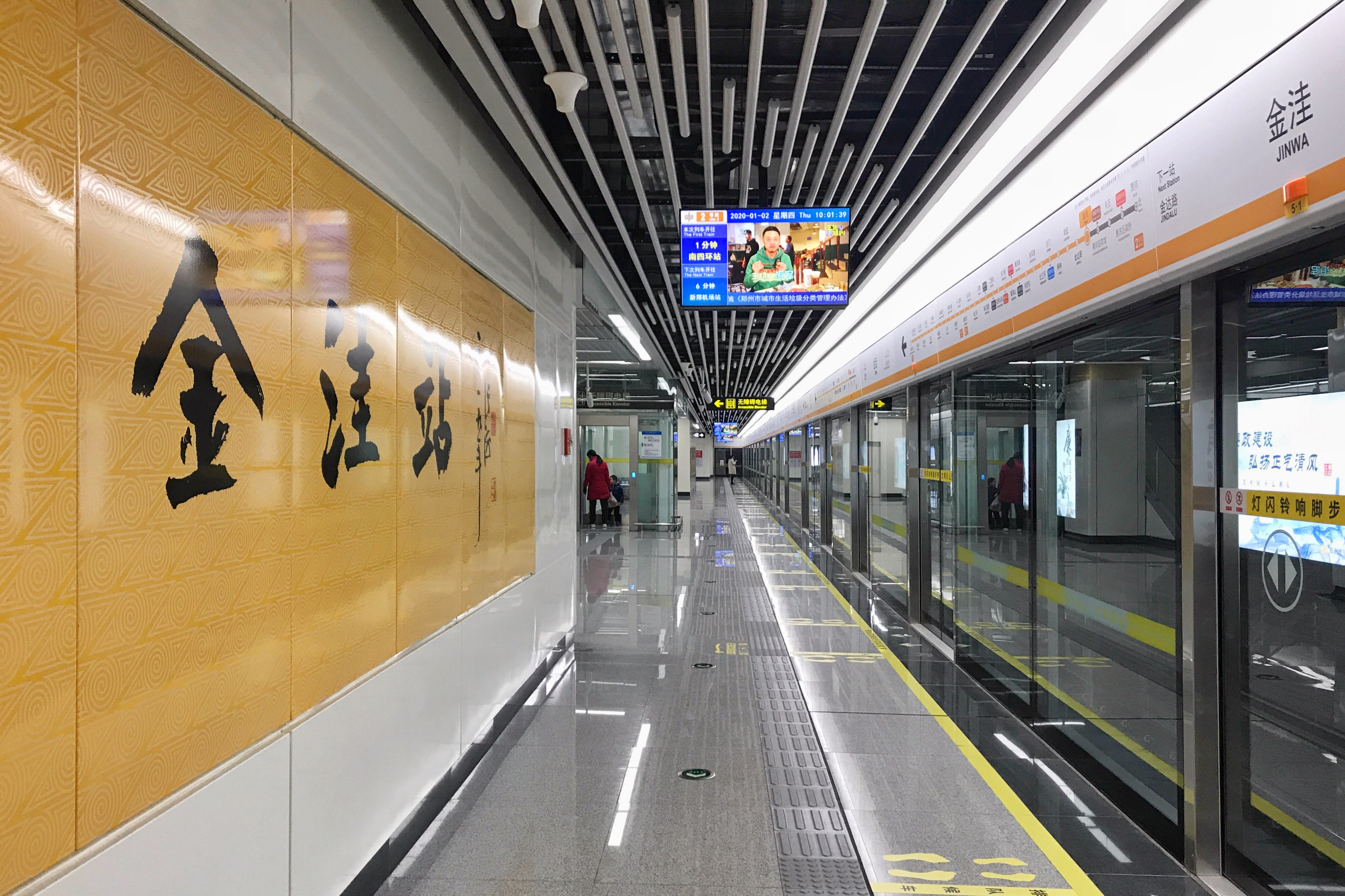 Platform of Jinwa Station